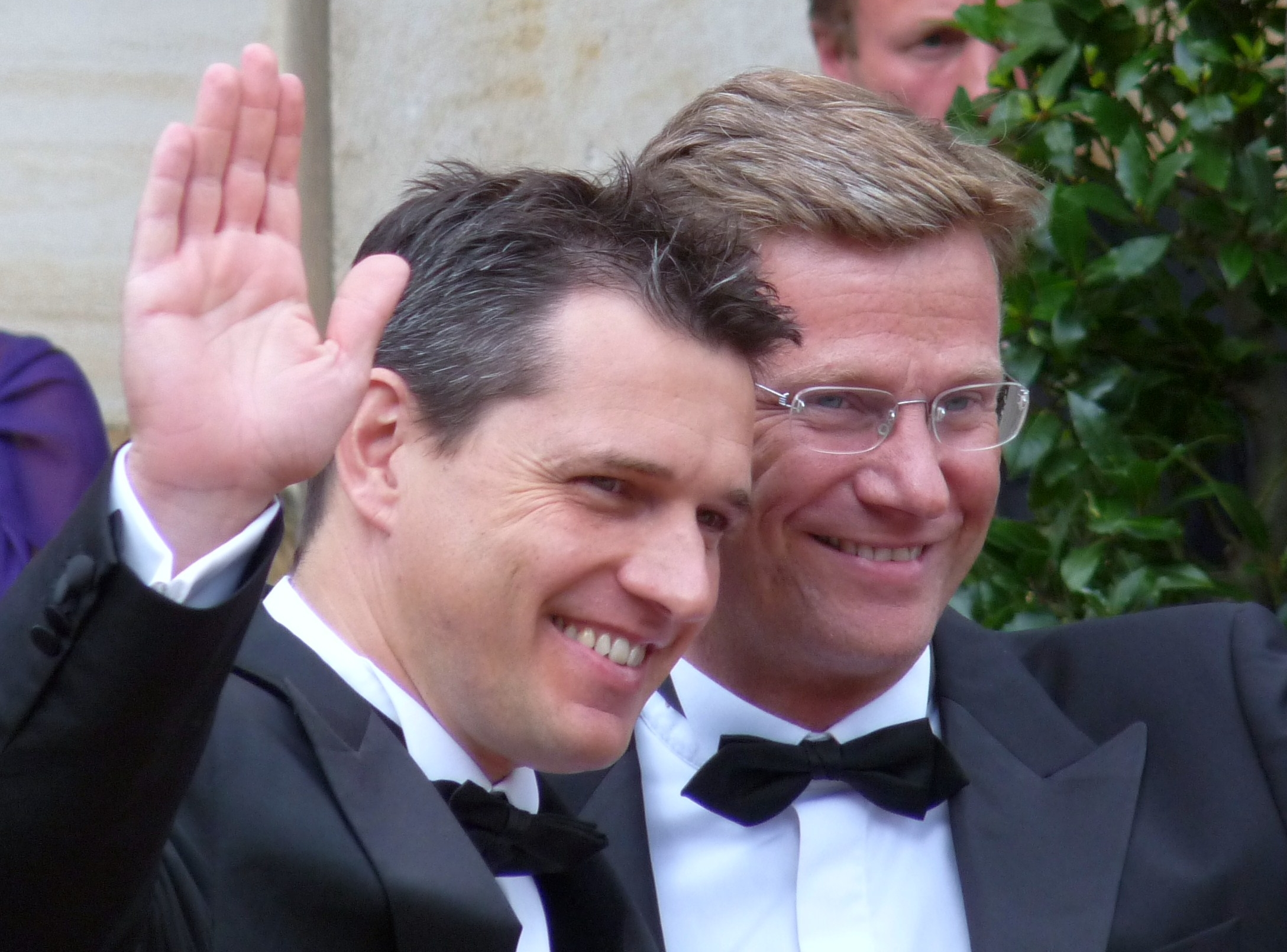 German politician Guido Westerwelle and his significant other Michael Mronz at the premiere of the Bayreuth Festival 2009.